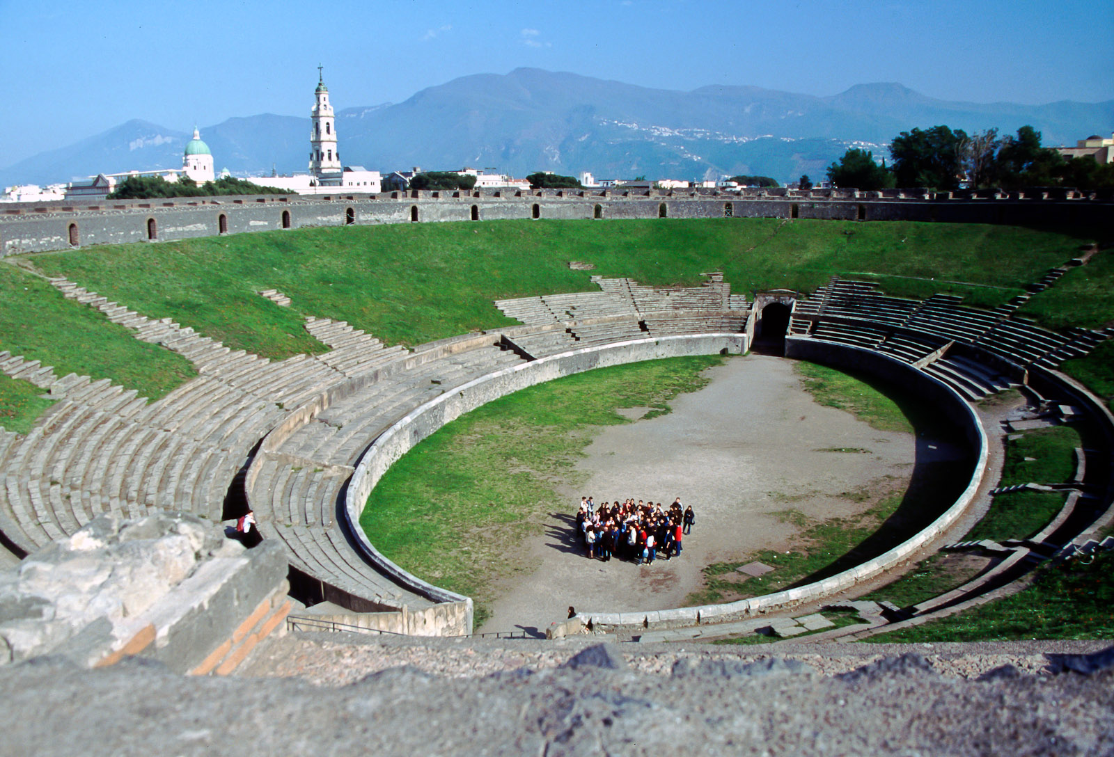 Pompeii - Amphitheater